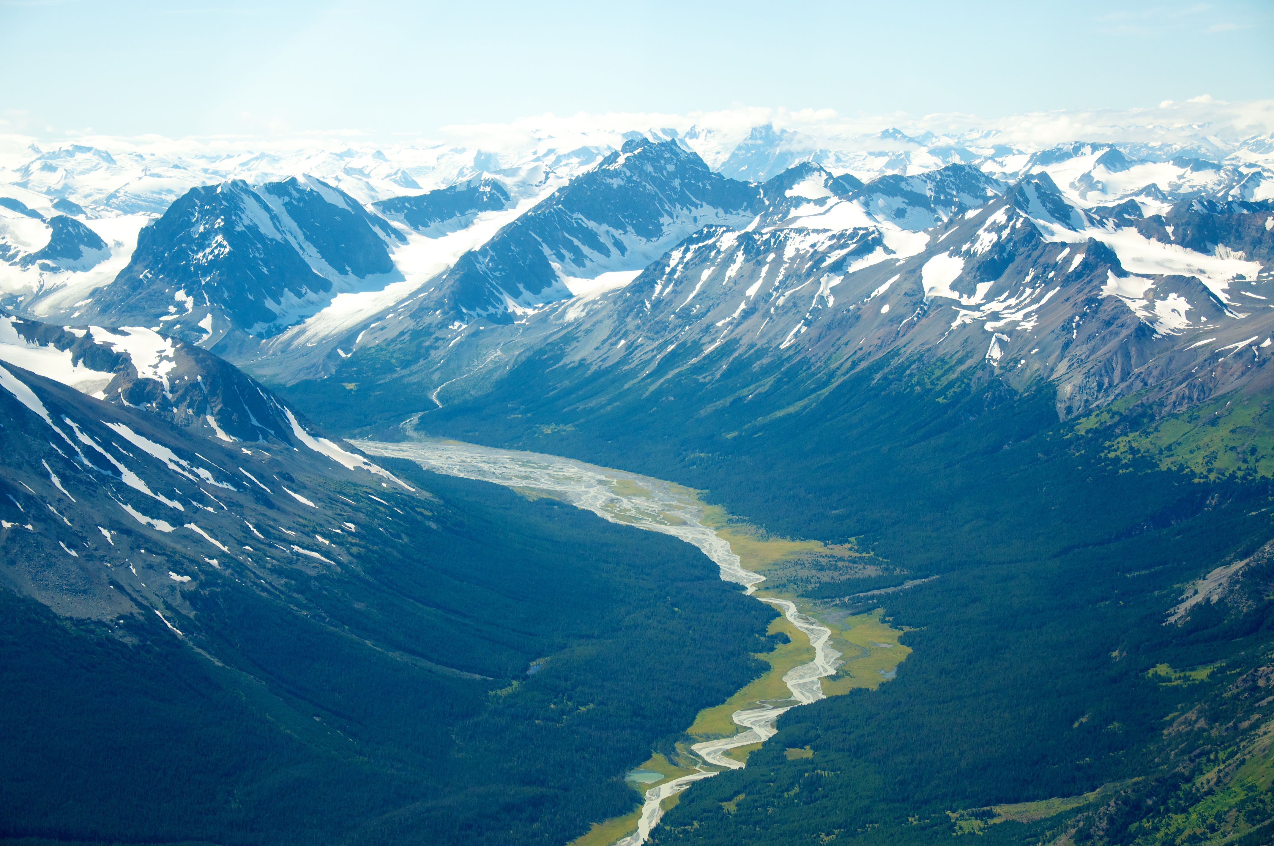 Aerial photograph of Ts'yl-os Provincial Park, British Columbia, Canada.